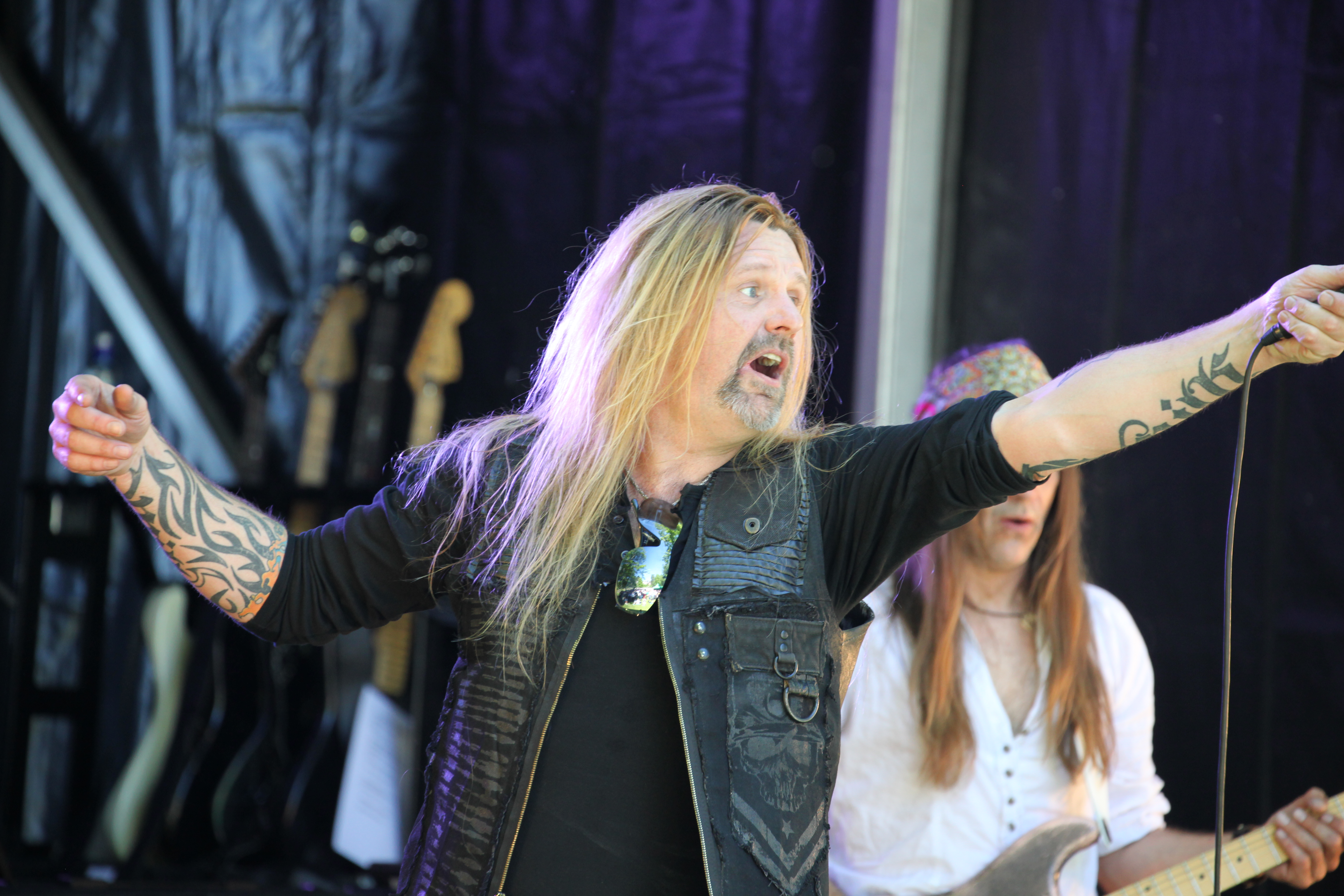 Norwegian hardrock band TNT playing at the park at headquarters of Det norske Veritas at Høvik outside Oslo, Norway, 19. june 2012